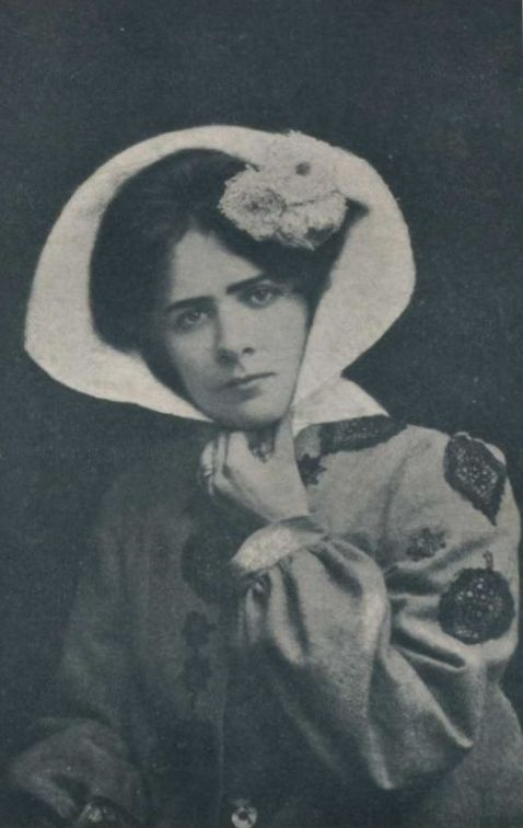 Zemgaliešu Biruta ap 1906. gadu. Fotogrāfija publicēta žurnālā "Stari" (1907. 08. 01.)